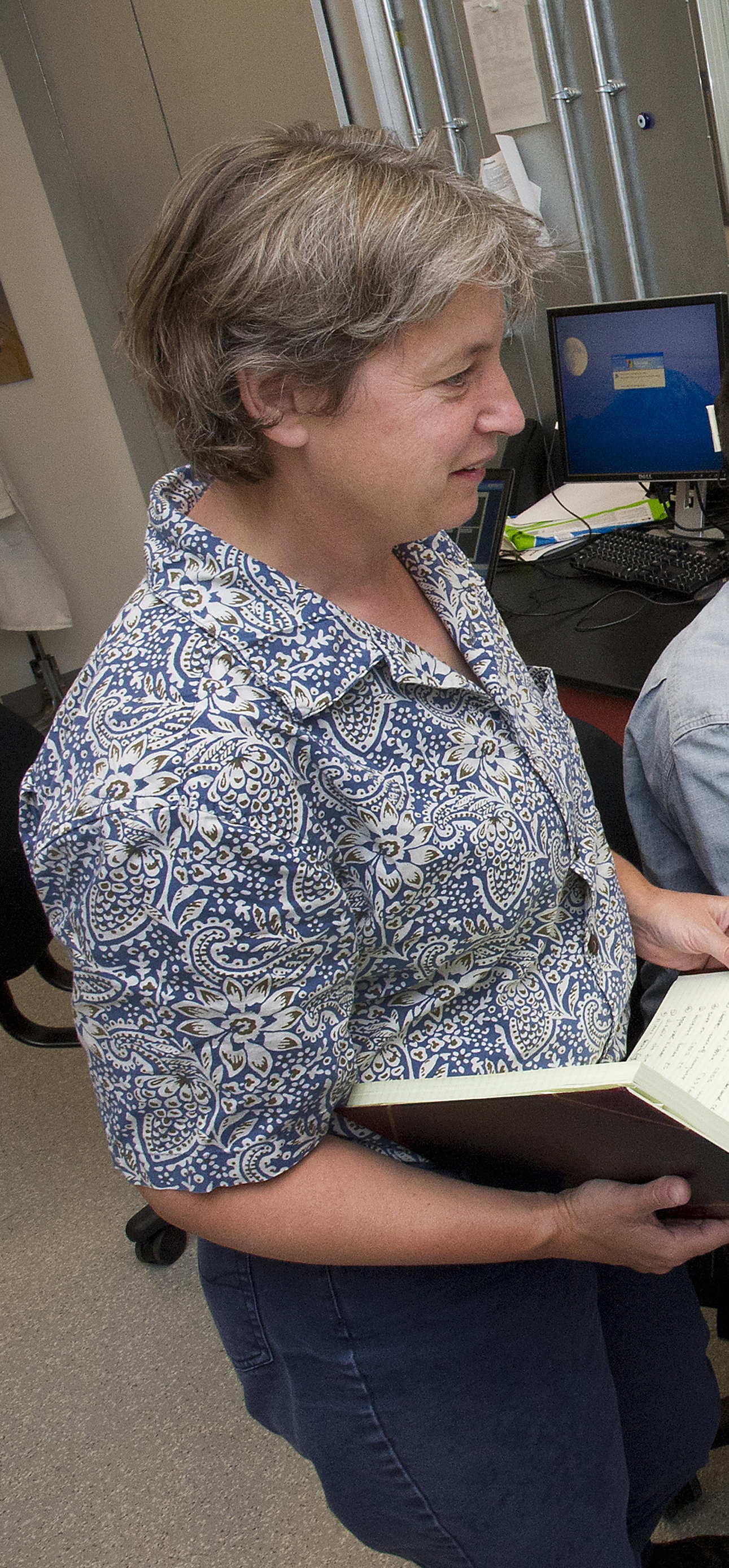 IBM scientist Frances Ross in the Center for Functional Nanomaterials. The researchers have developed a method for growing combinations of different materials in a needle-shaped crystal called a nanowire.